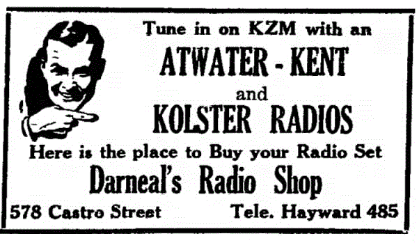 1928 advertisement for Darneal's Radio Shop of Hayward, California. KZM was a radio station that had recently moved from Oakland to Hayward. KZM was subsequently deleted in mid-1931.